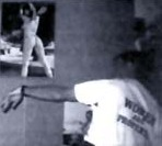 In a photo from the US Department of Defense Inspector General's Tailhook '91 investigation report, an unidentified US Navy aviation officer belonging to the VF-124 Fighter Squadron wears a t-shirt emblazoned with the phrase "Women are Property" in the squadron's hospitality suite at the 1991 Tailhook Symposium at the Las Vegas Hilton. On the wall is a poster of a woman in a thong-style undergarment or swimming suit.